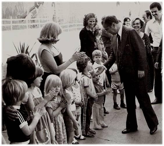 Governador Ney Braga inaugurando creche.